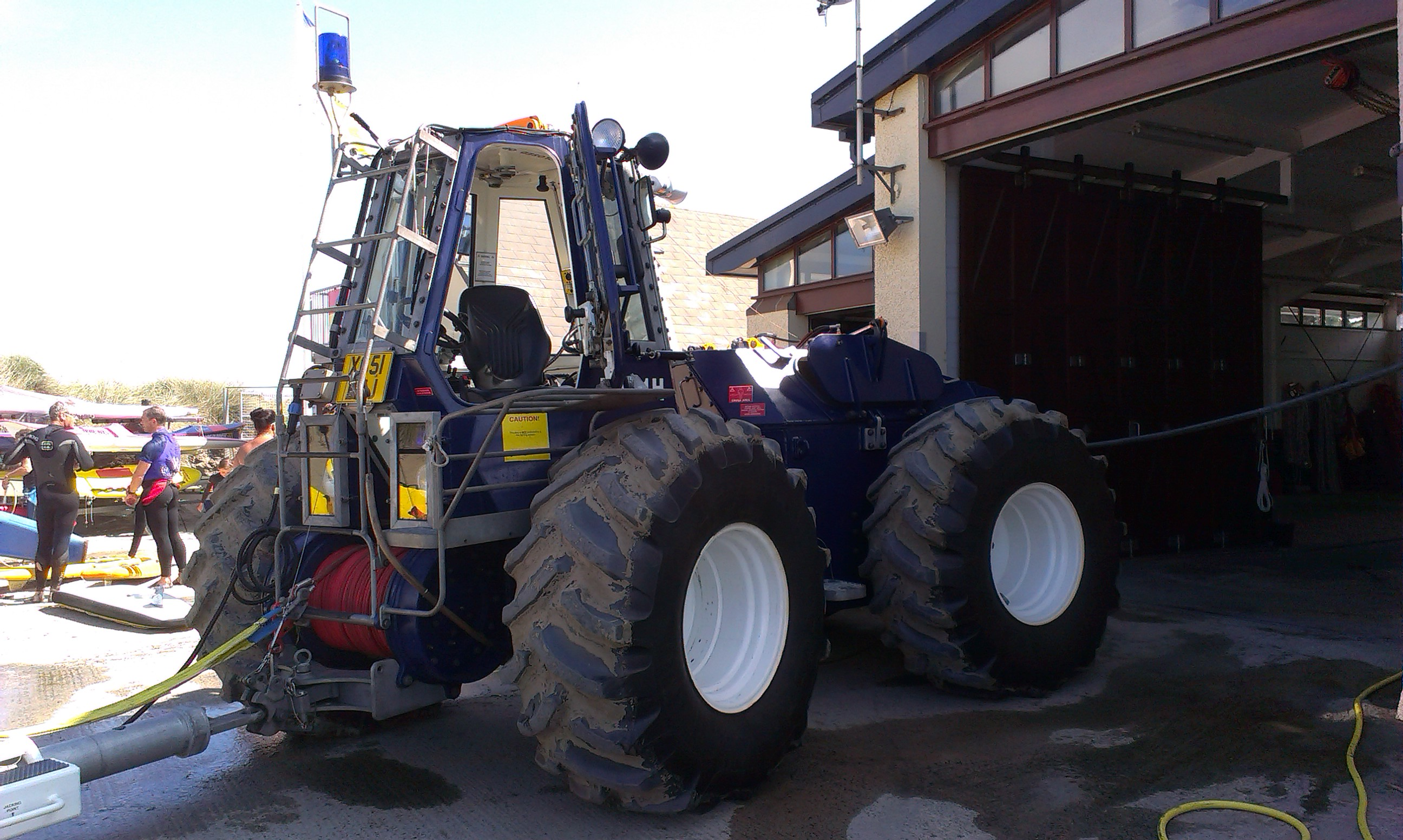 Tractor at Poppit Sands RNLI station, used for main lifeboat